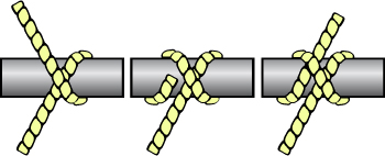 Illustration of tying a clove hitch knot.